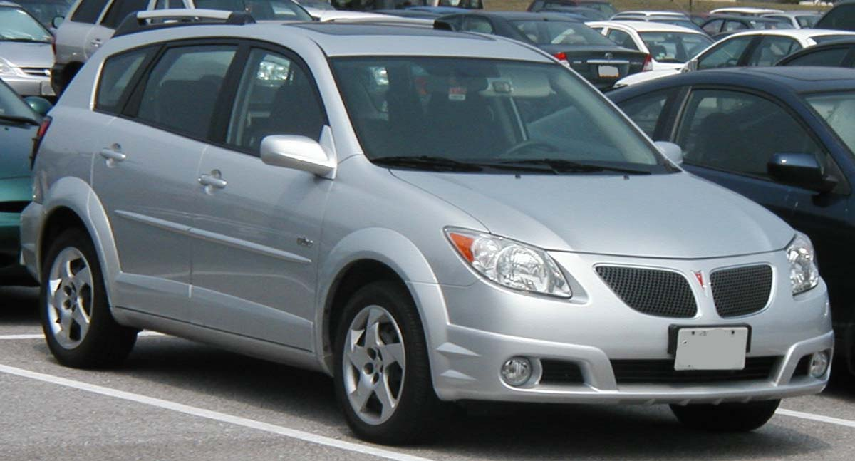 2005-2006 Pontiac Vibe photographed in USA.